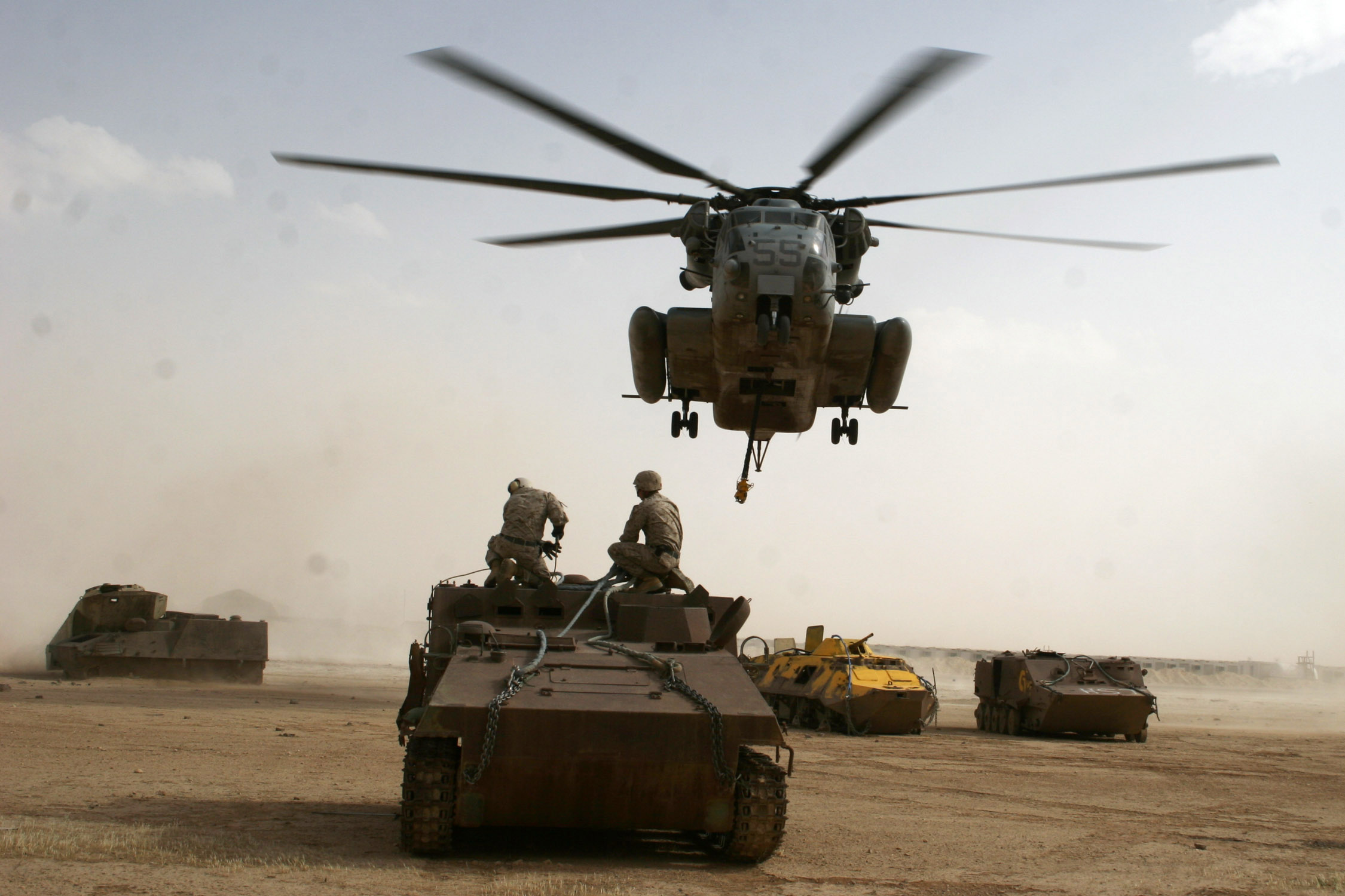 AL ASAD, Iraq � A CH-53E Super Stallion from Marine Heavy Helicopter Squadron 465 approaches a hulk as Marines from a Combat Logistics Battalion 2 helicopter support team wait to hook the vehicle to the helicopter May 2. One Super Stallion from HMH-465 moved six hulks of Russian armored vehicles and avoided risking Marines� lives and damages to ground transportation equipment.